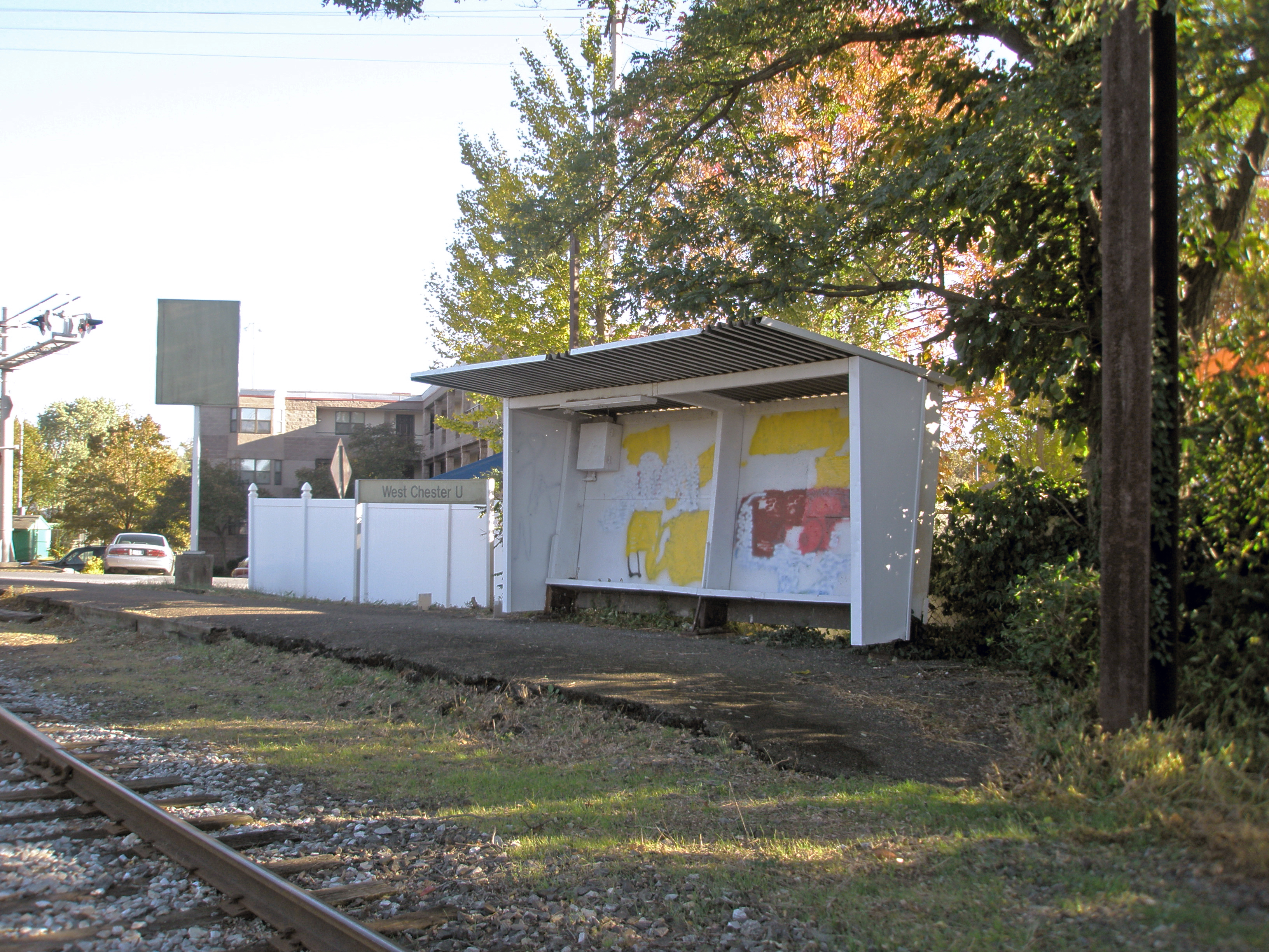 West Chester University station, shelter, platform and sign